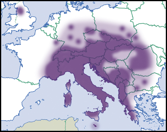 Vitrea subrimata (Reinhardt, 1871). Distribution in Europe, scientific state of knowledge of 2012. Source description in English. Light colour indicated rare occurrences or regions where the species could eventually be expected to occur. Dark colour indicated relatively reliable occurrences, as well as regions where the species was expected to occur, and where the species was not known to be extremely rare. Dark colour indications were not necessarily based on published records. Species summary in AnimalBase